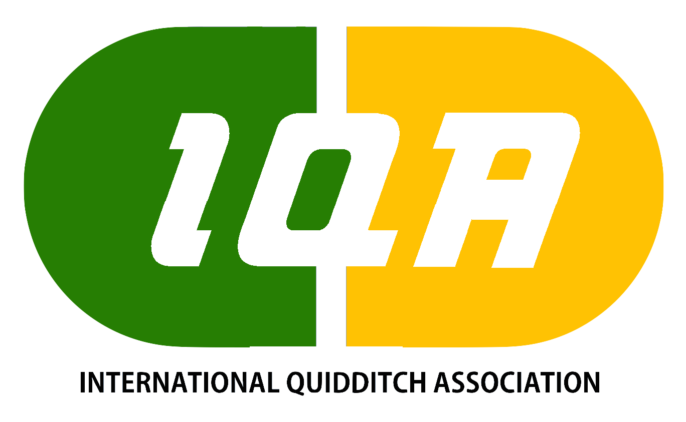 The logo for the IQA, the international sports federation for the sport of quidditch. The four colours used denote the four headband colours used in play: green - keeper, white - chaser, black - beater and yellow - seeker.